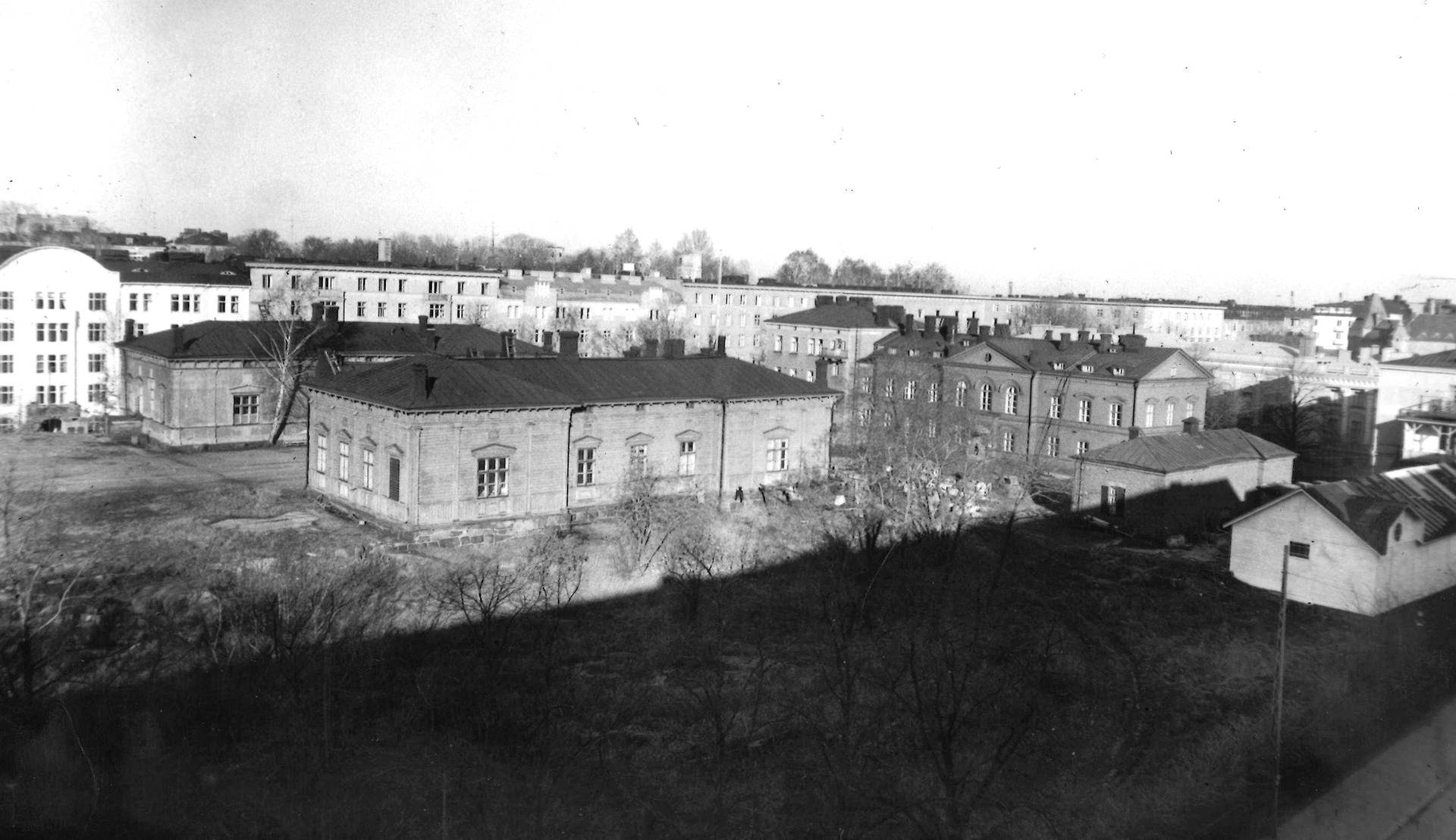 Photograph of the so-called Kätilöopisto property in Eira, Helsinki, given to the Soviet Union in exchange.